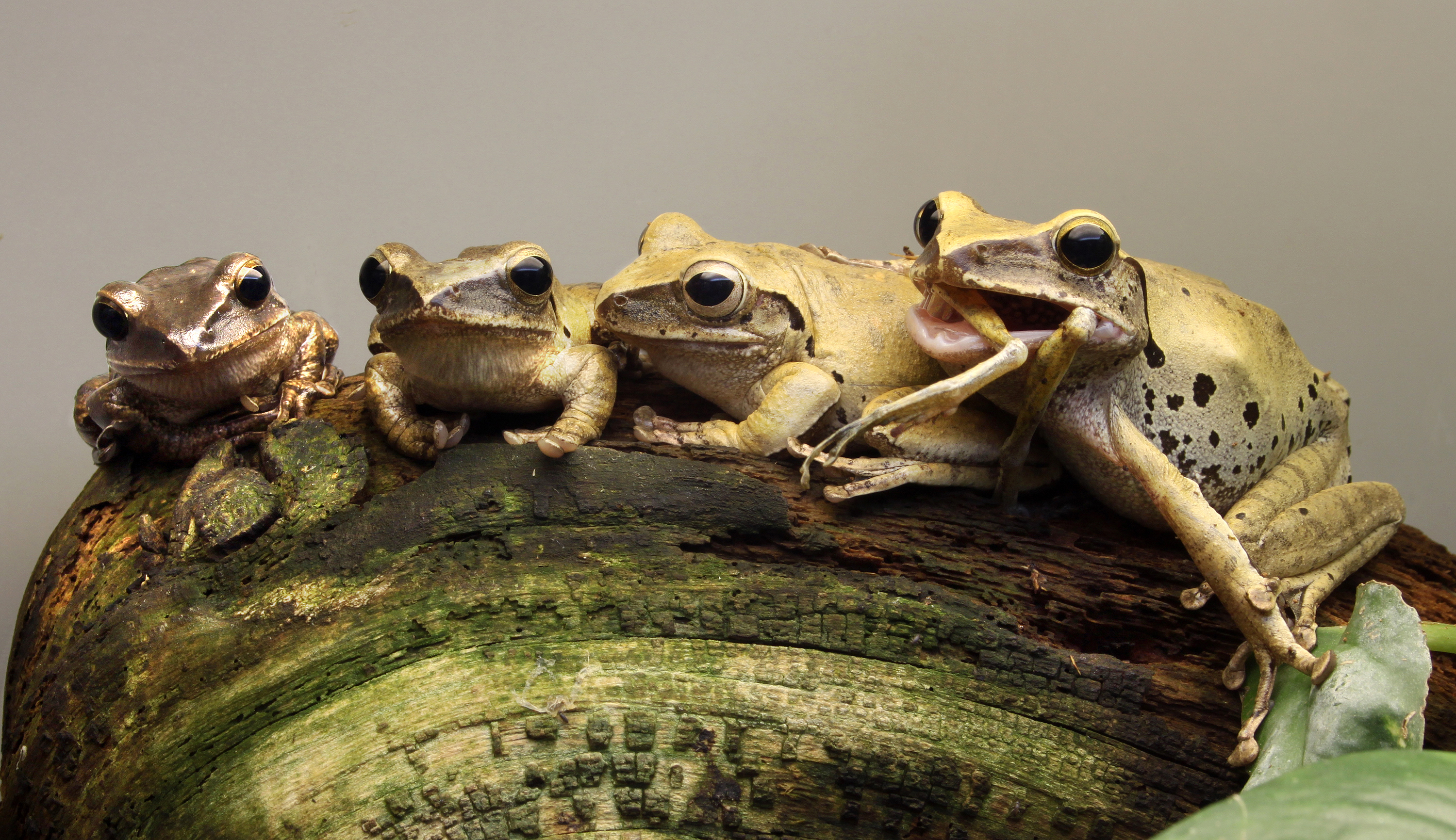 Common Tree Frog (Polypedates leucomystax) at Zoological Garden of Stuttgart (Germany). The rightmost frog has a congener in his mouth, cannibalism is common in this species.